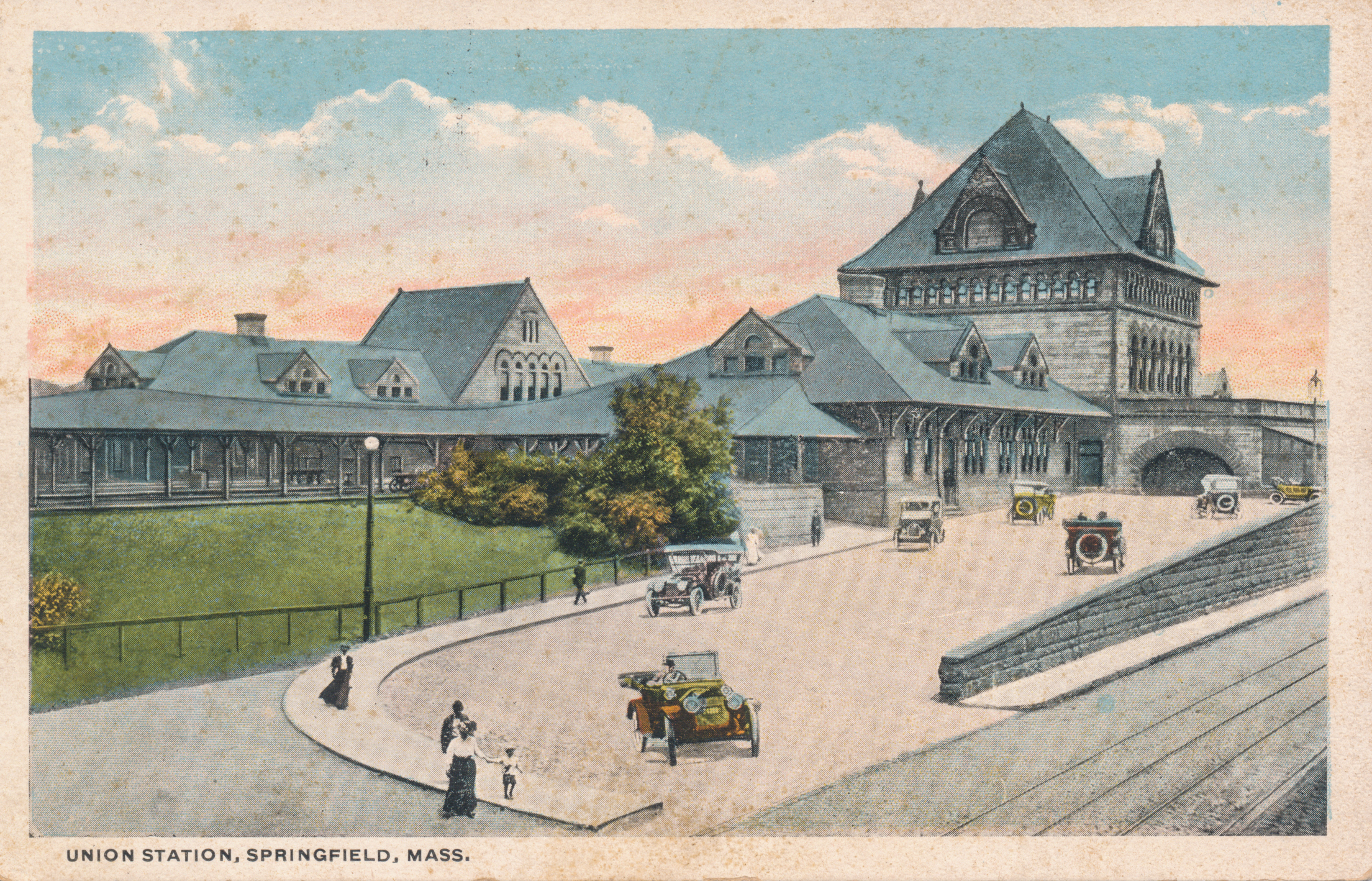 An early image of the original Union Station building in Springfield, Massachusetts. An imprint on the rear of the card reads, "Published by the Springfield News Company, Springfield, Mass." The card also includes a reference number "A-60883" (on the rear)